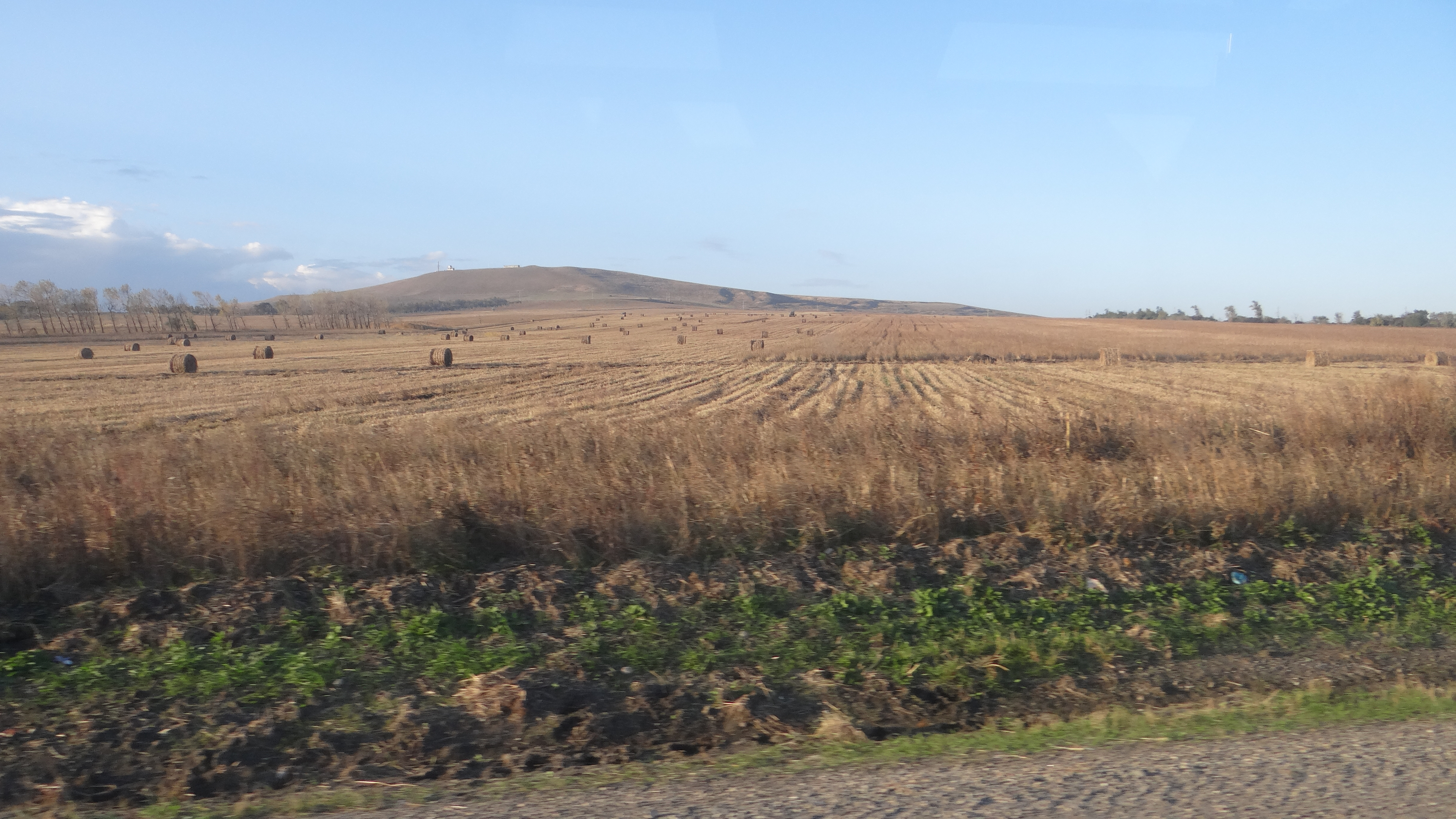 Prikubansky District, Karachay-Cherkessia, Russia